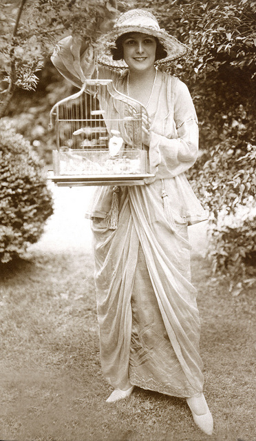 ff